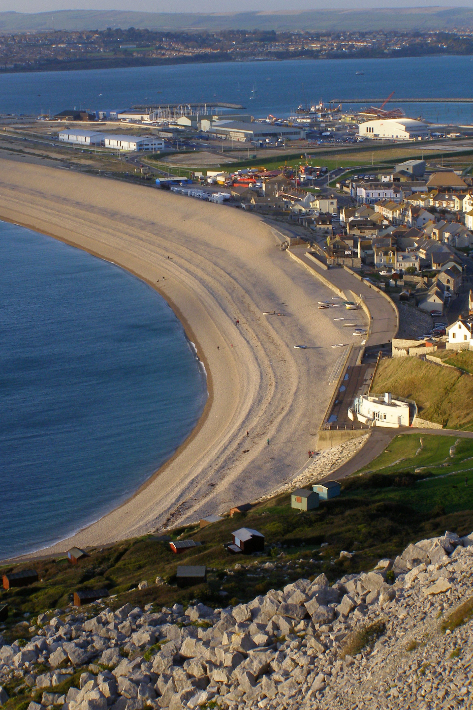 Looking down at Chesil Cove at the southern end of Chesil Beach, from the cliff-top path above West Weare. The low sunlight shows up the series of slopes, ridges and terraces on the beach.